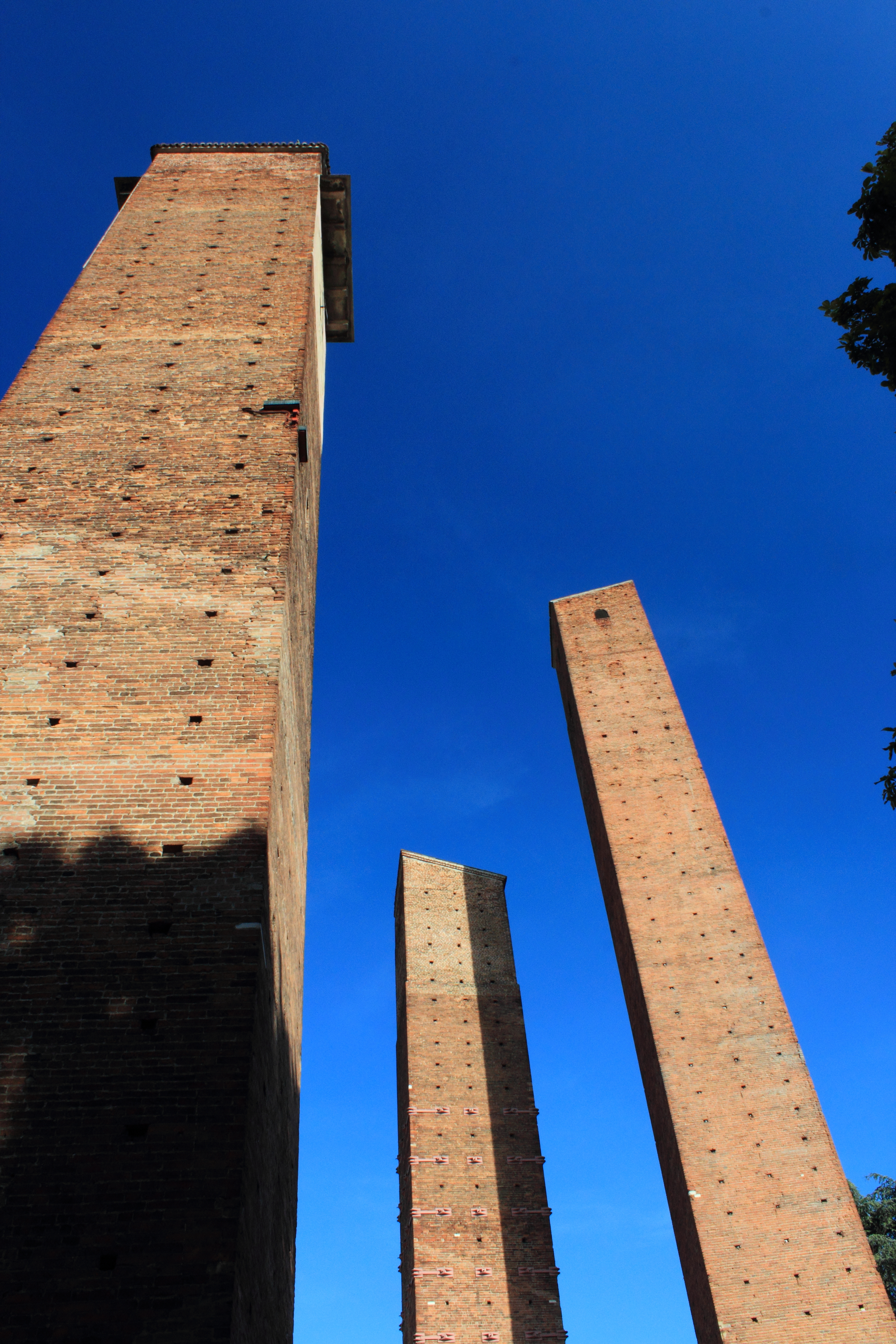 This is a photo of a monument which is part of cultural heritage of Italy.